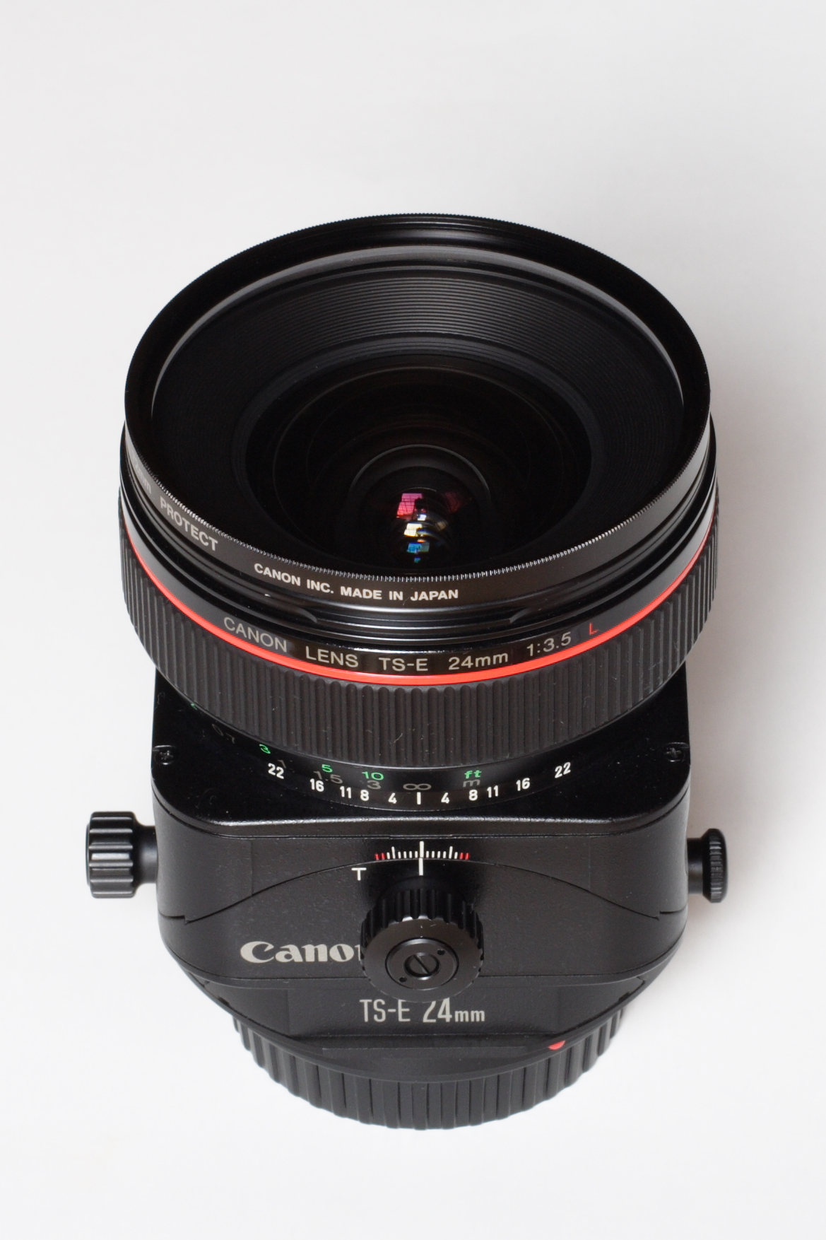 Canon TS-E24mmF3.5L - TS means Tilt and Shift